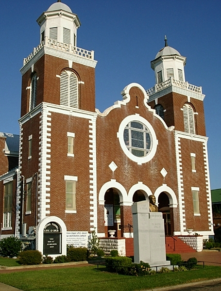 Brown Chapel A.M.E. Church in Selma, Alabama. Built in 1908. A starting point for the Selma to Montgomery Civil Rights marches of 1965. A memorial can be seen on the lawn in the foreground.